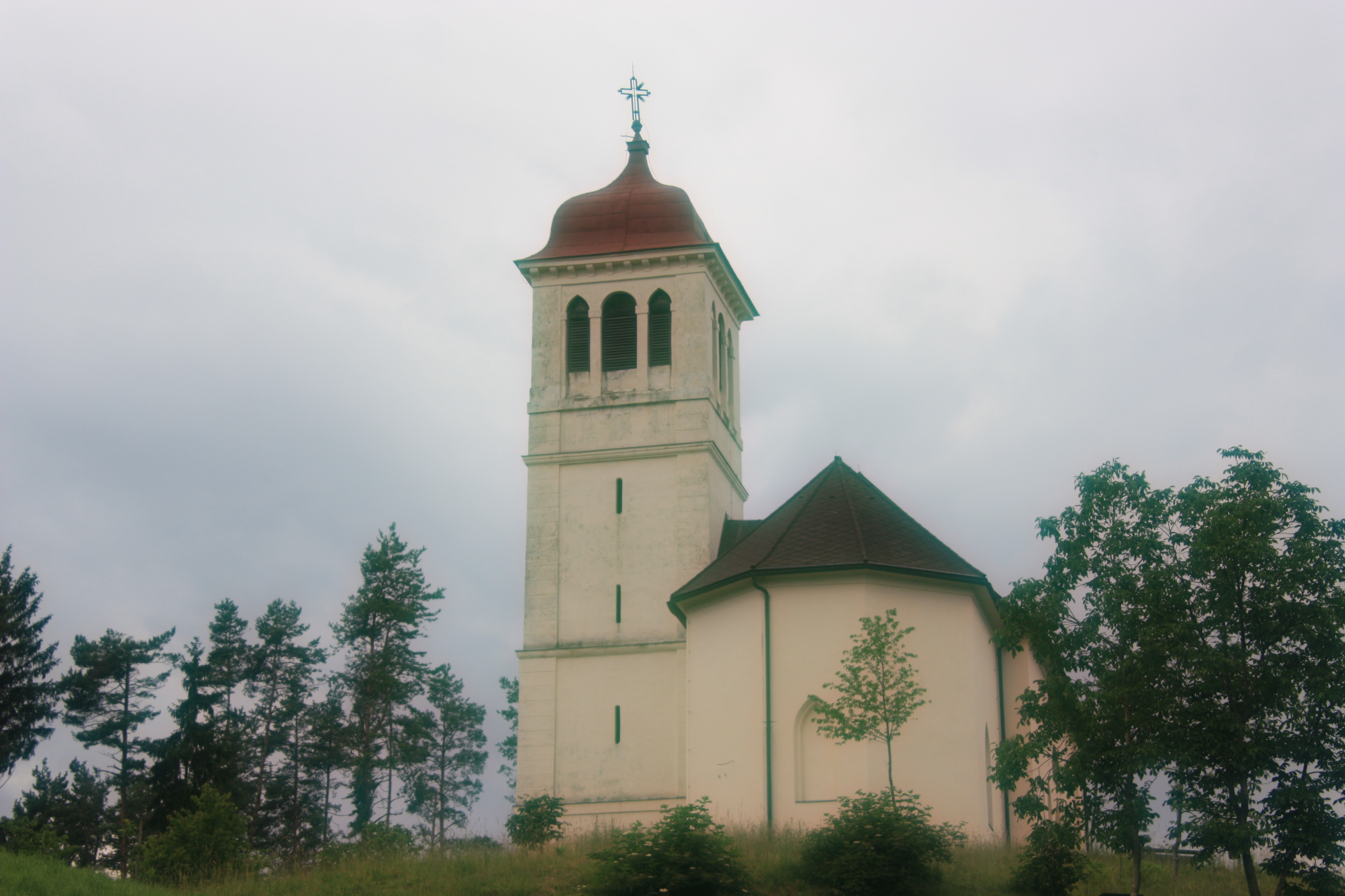 Filial-Church Saint Katharina am Kogel, near St Michael ob Bleiburg, Carinthia